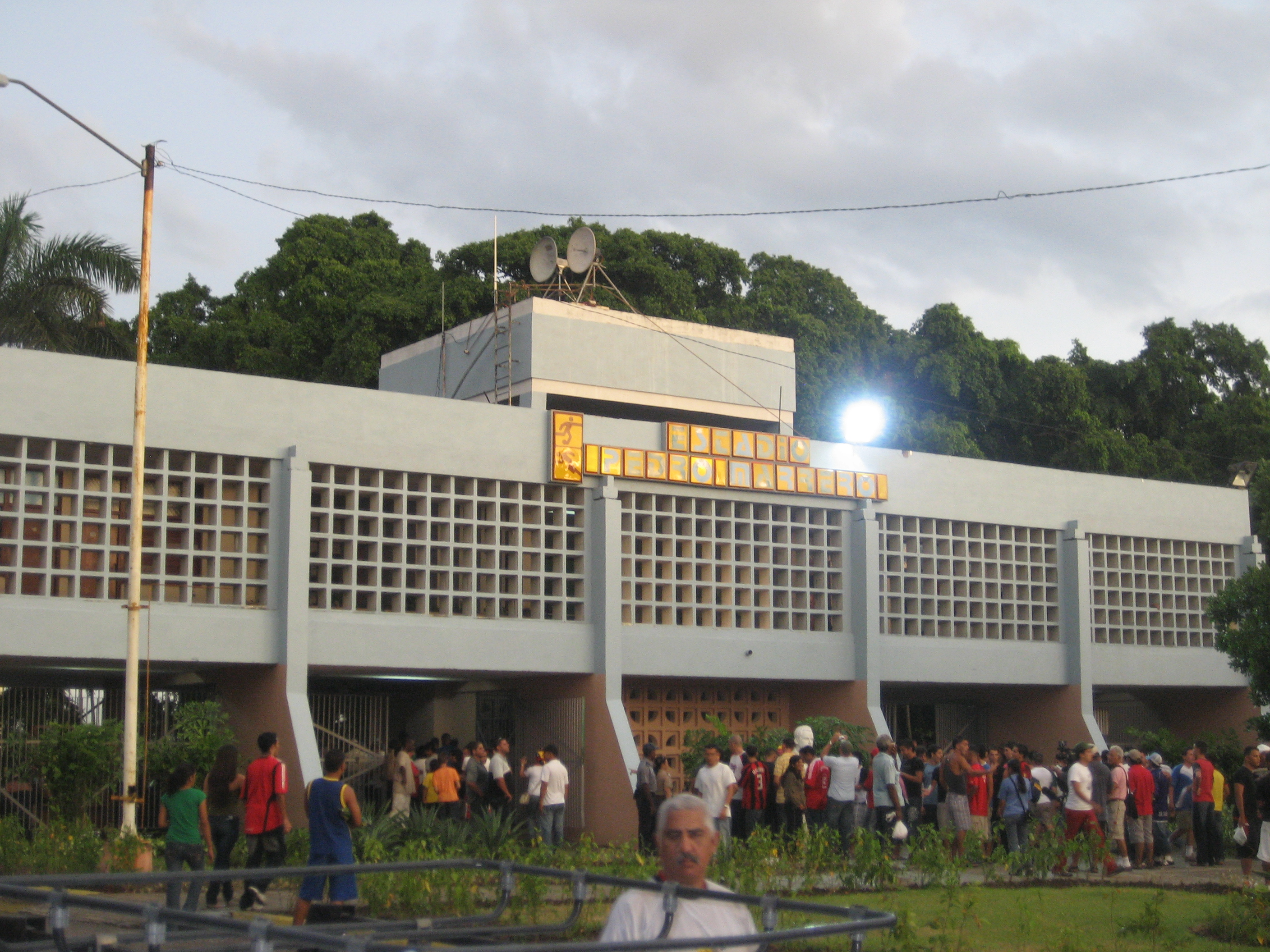 Exterior of the Pedro Marrero Stadium in Havana, Cuba.